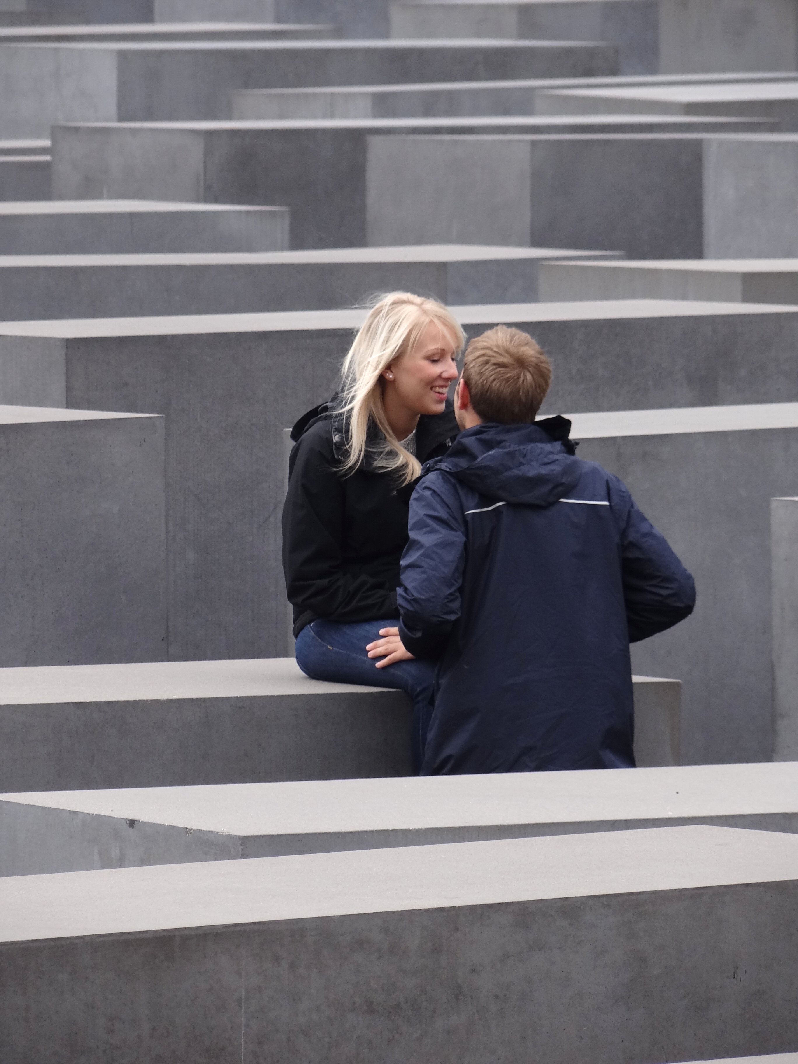 Couple at Memorial to the Murdered European Jews - Berlin - Germany